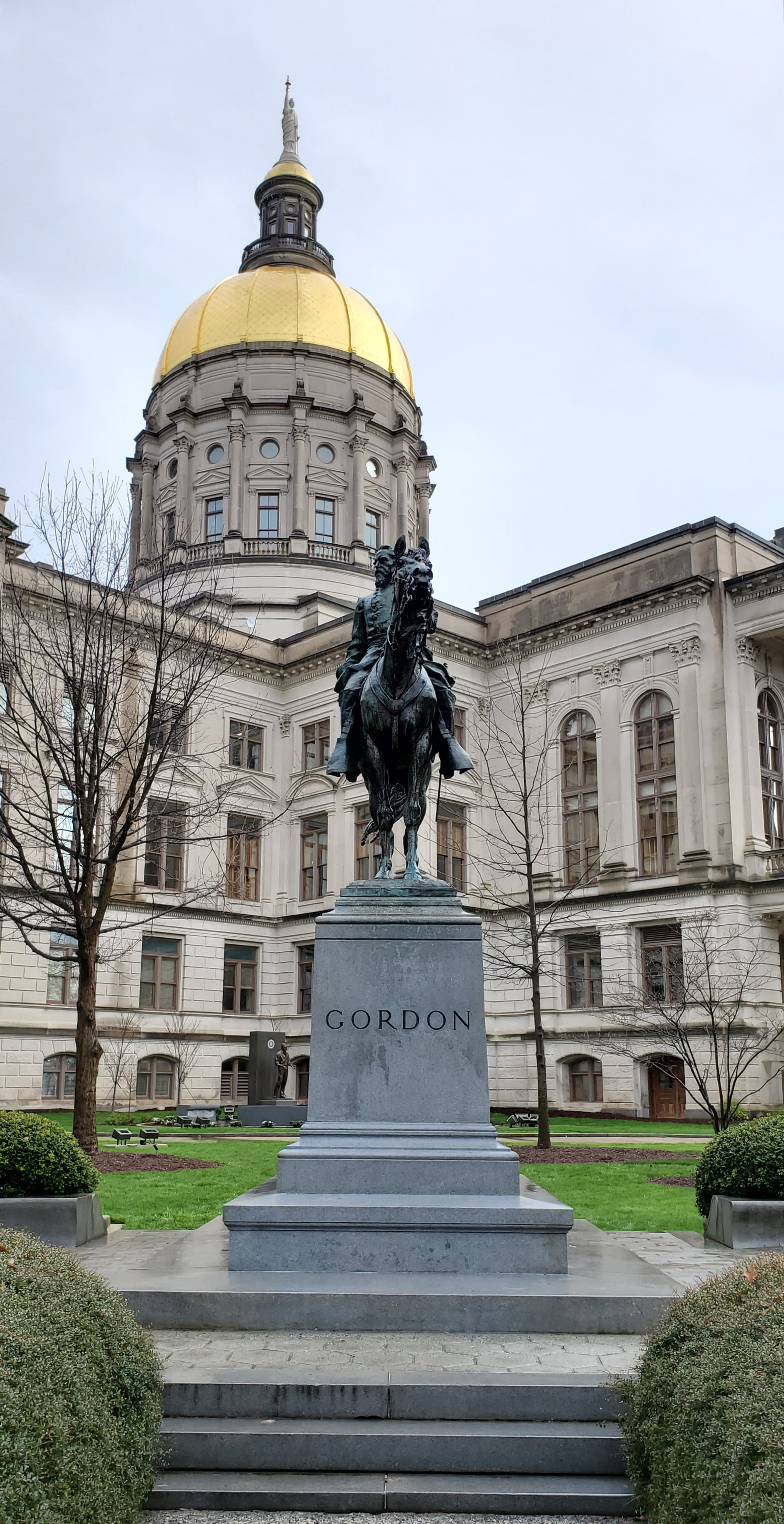 The John Brown Gordon statue with the Georgia State Capitol in the background in downtown Atlanta, Georgia.